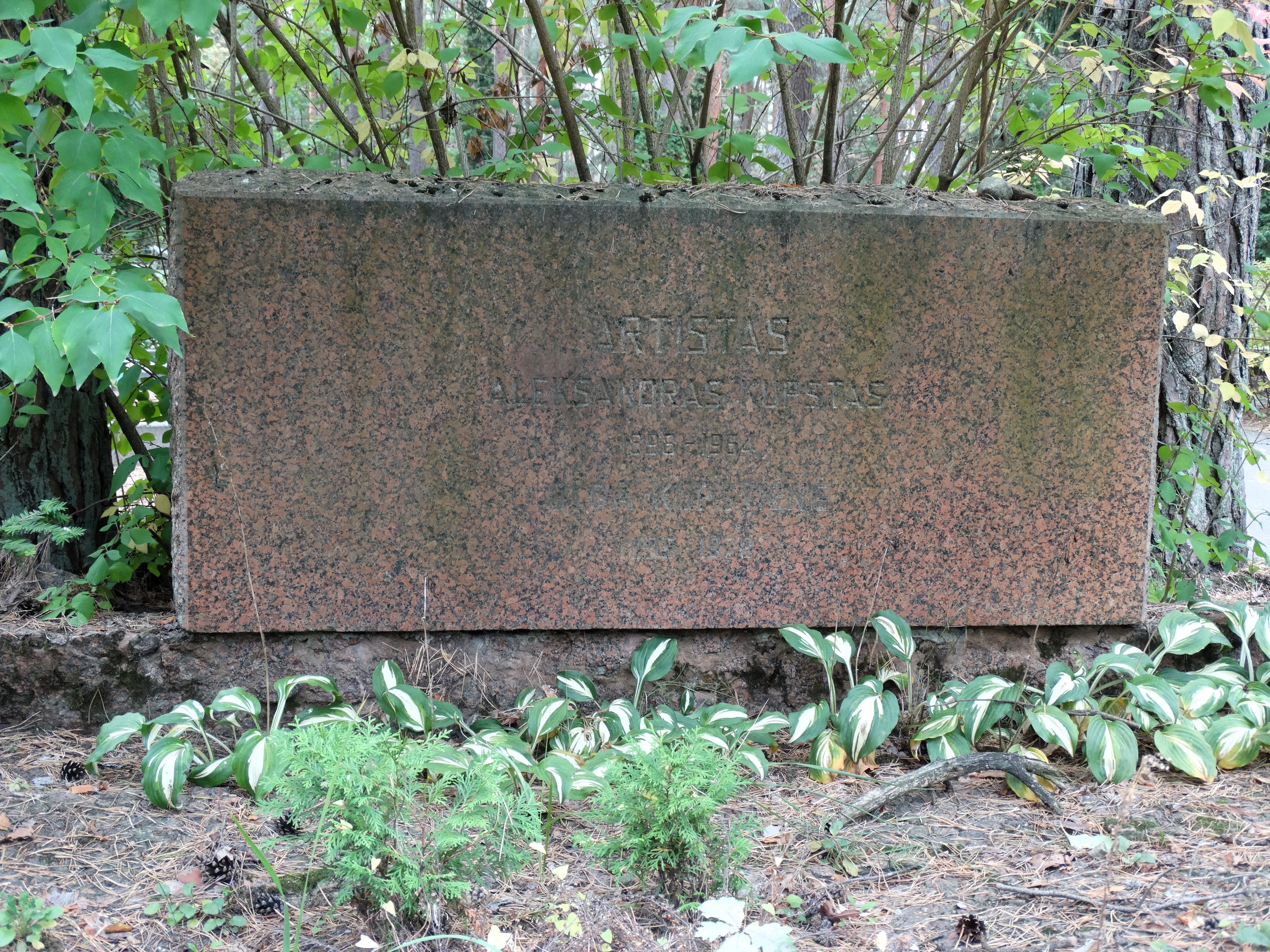 Tomb of Aleksandras Kupstas, Petrašiūnai, Lithuania